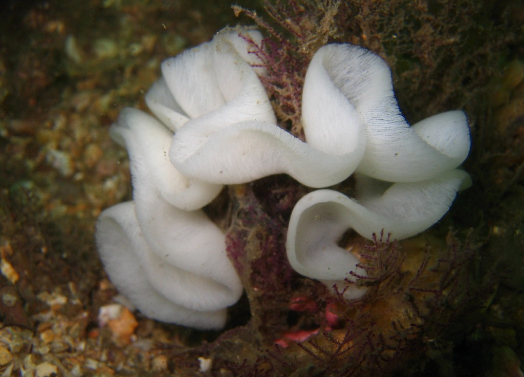 The egg ribbon of a nudibranch. Halifax Point, Port Stephens, NSW